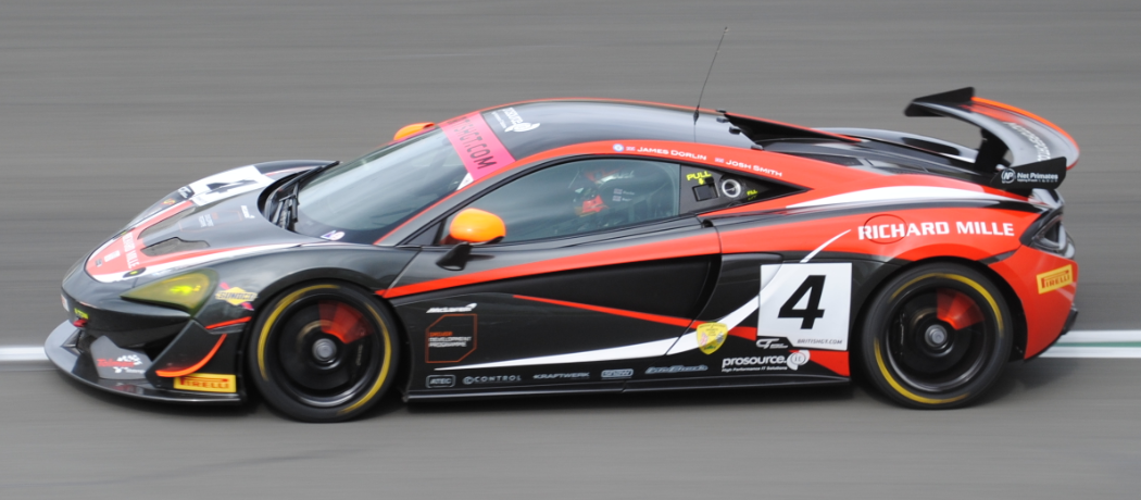 Tolman Motorsport's McLaren 570S at Donington Park.